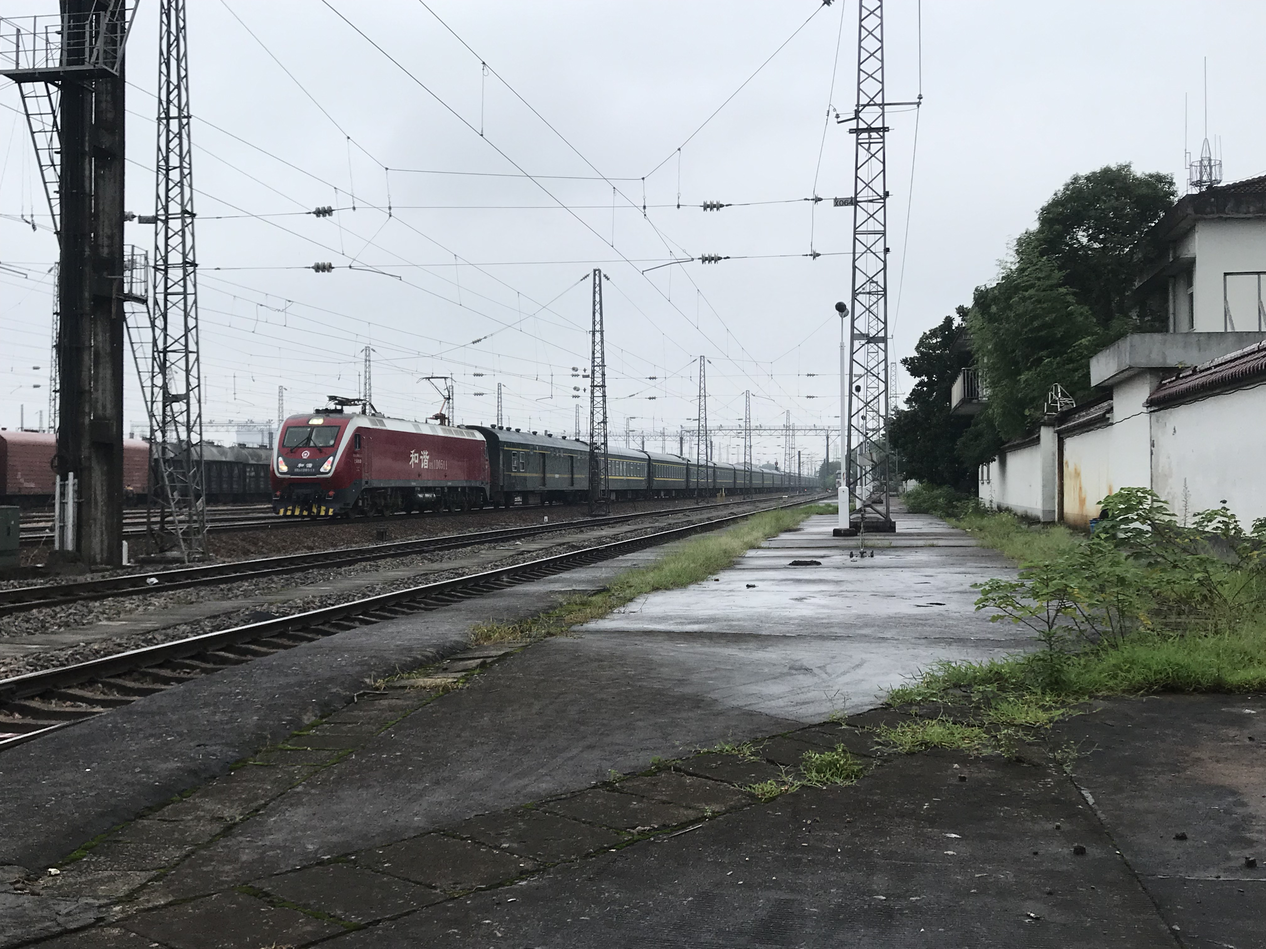 Not sure when it was switched to be hauled by HXD1D